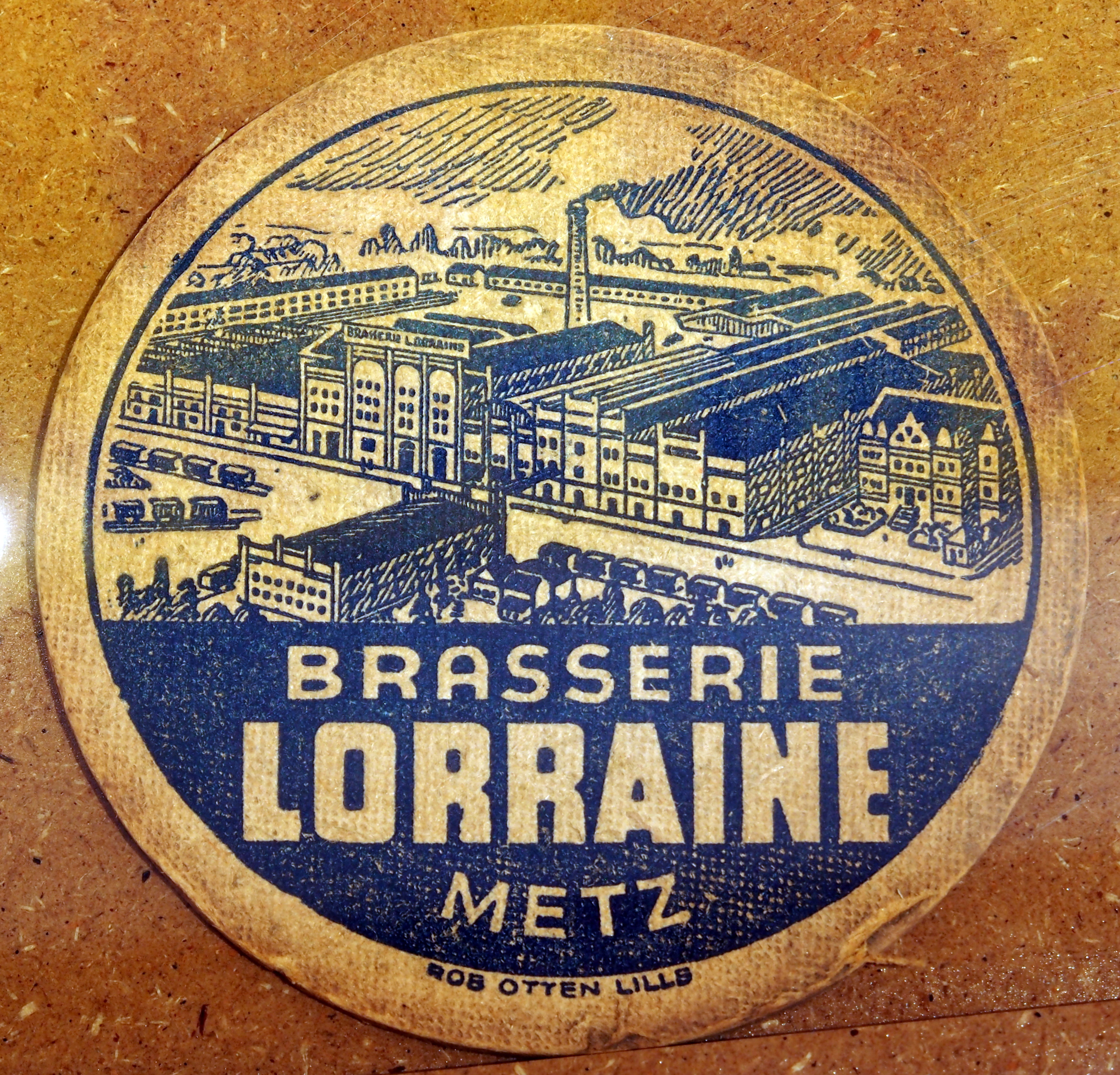 Brasserie Lorraine. (Photographed through glass.)